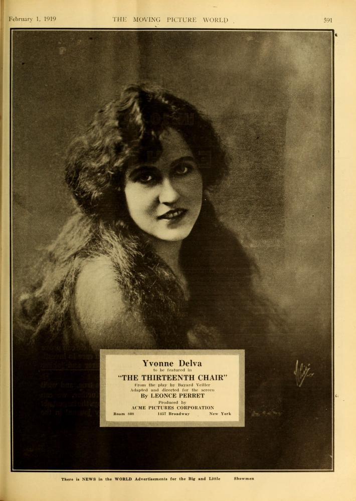 Advertisement in Moving Picture World for The Thirteenth Chair (1919) with Yvonne Delva. This was the only film the actress is known to have been in.